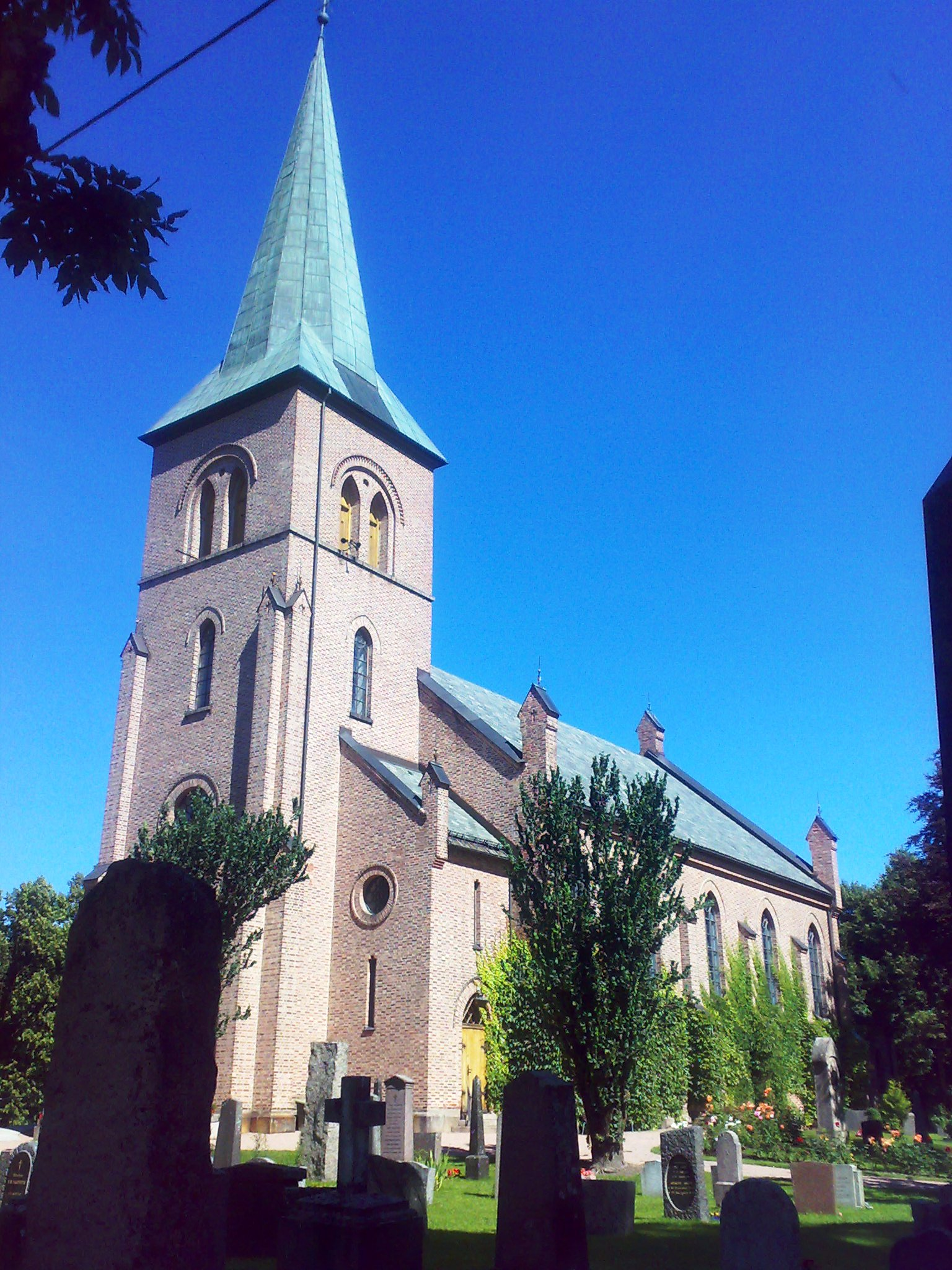 Asker church, Asker city (Akershus), Norway